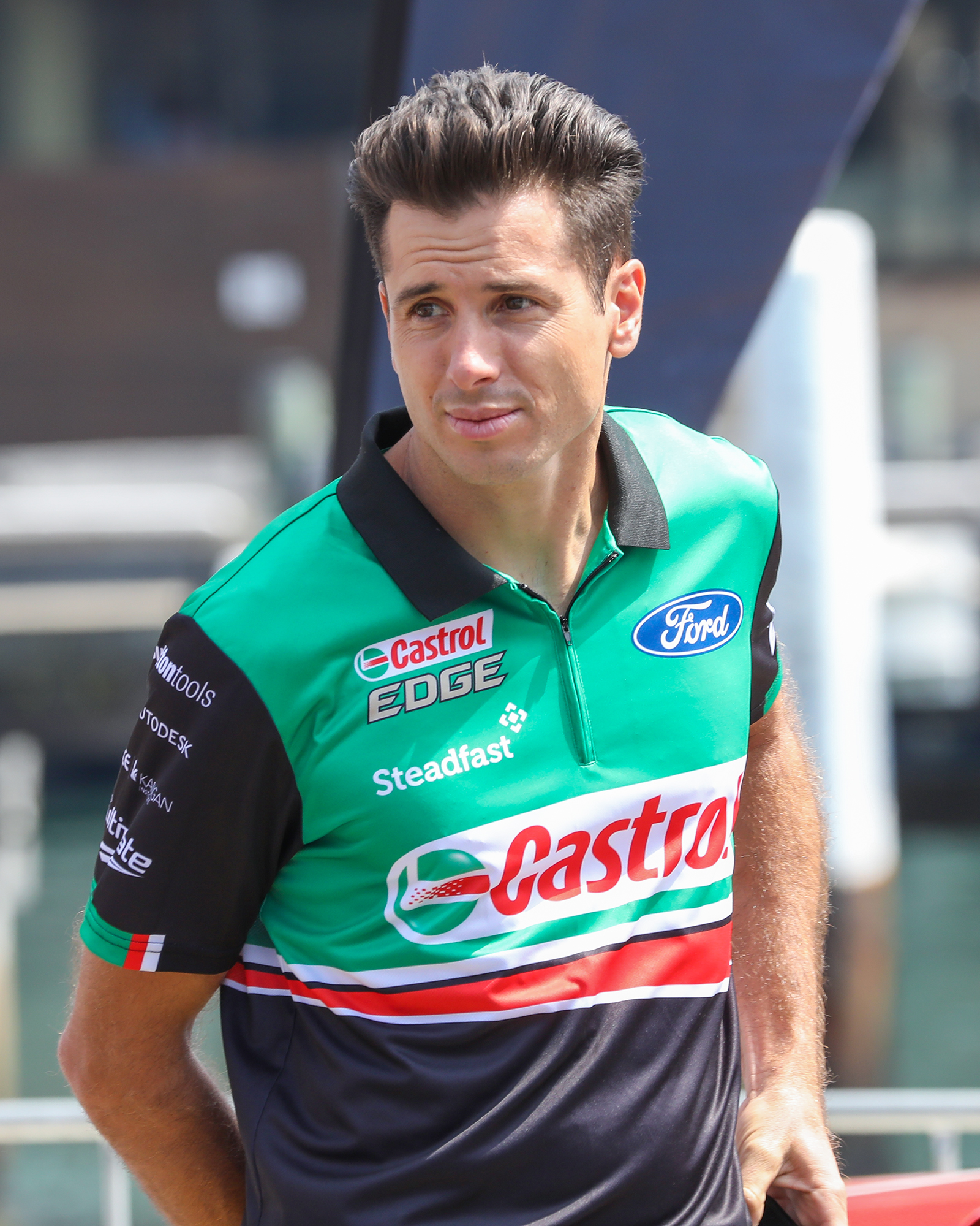 Rick Kelly at the 2020 Supercars season launch